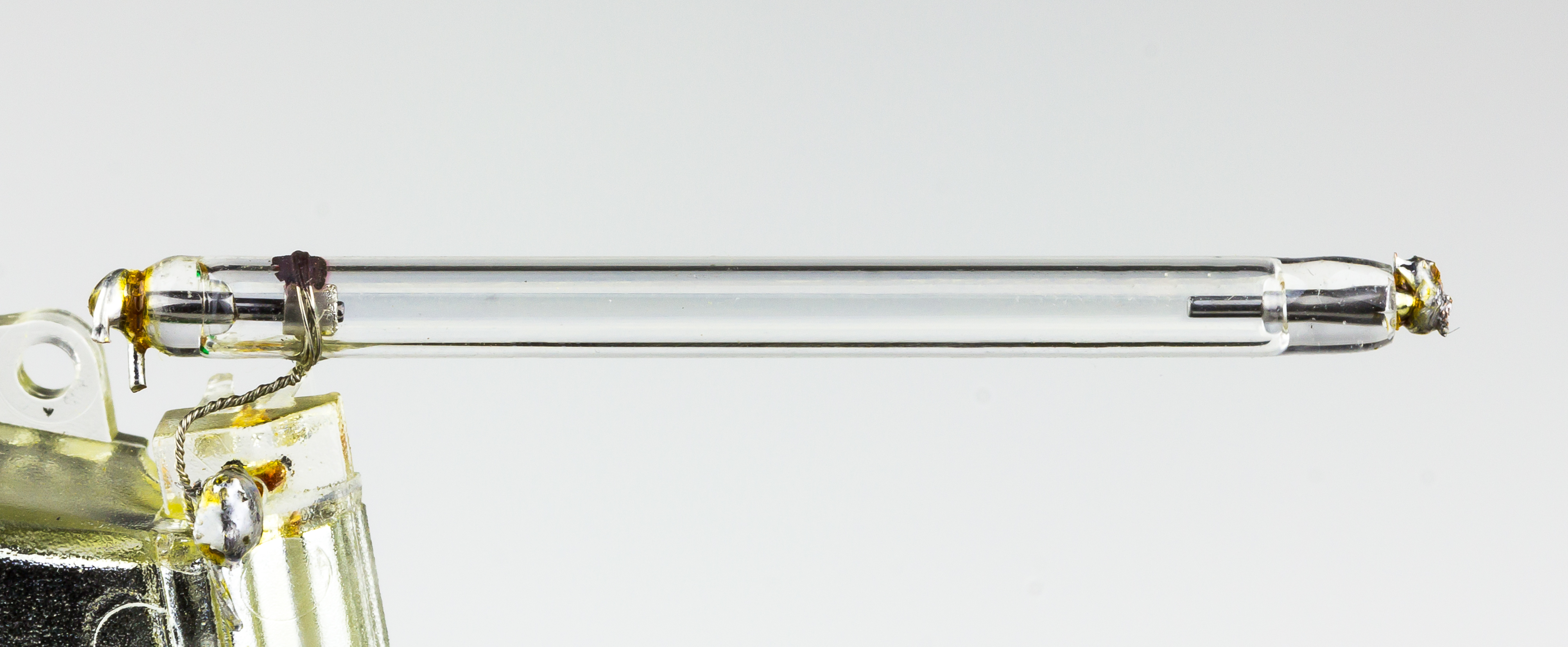 Revue tron bc 28 - flashtube